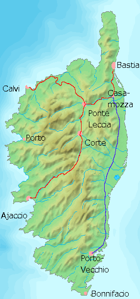 Map of the Railways of Corsica.